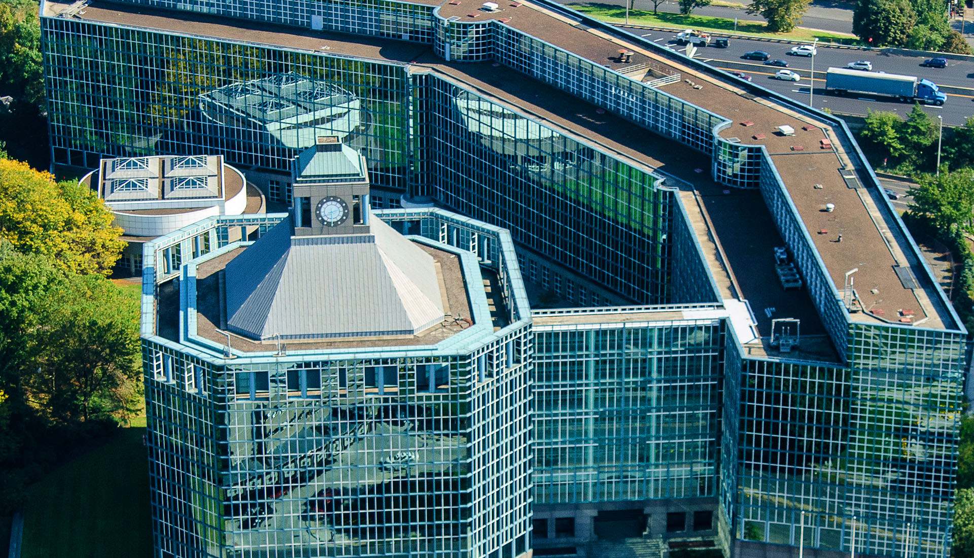 695 East Main St. Stamford CT. The BLT Financial Center and headquarters of Henkel North America Consumer Goods and Deloitte's Stamford office.